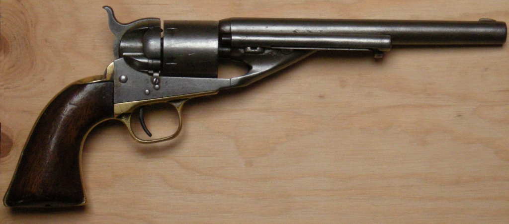 Colt Navy 61 Conversion